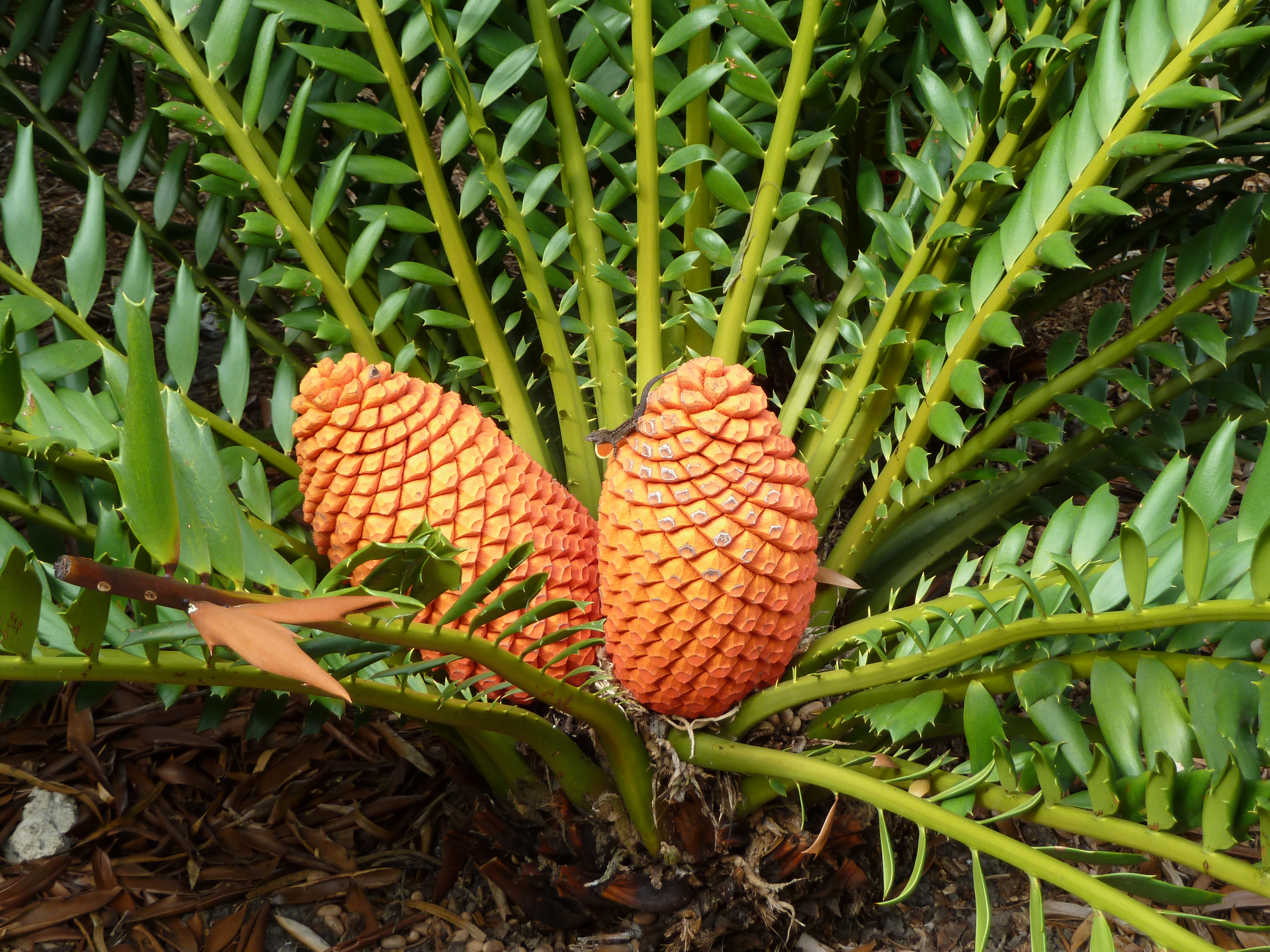 Encephalartos ferox cycad at Fairchild Tropical Botanic Garden in south Miami, Florida. Brown anole (Anolis sagrei) on the right cone -- his throat pouch matches the fruit.